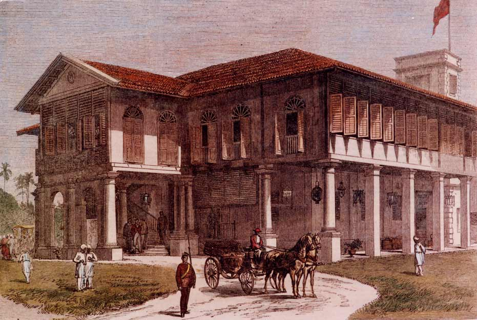 Title: Edinburgh House occupied by the Duke Media: Watercolour Width: 24 cm (9.4 in) Height: 16 cm (6.3 in) Year of creation: 1870